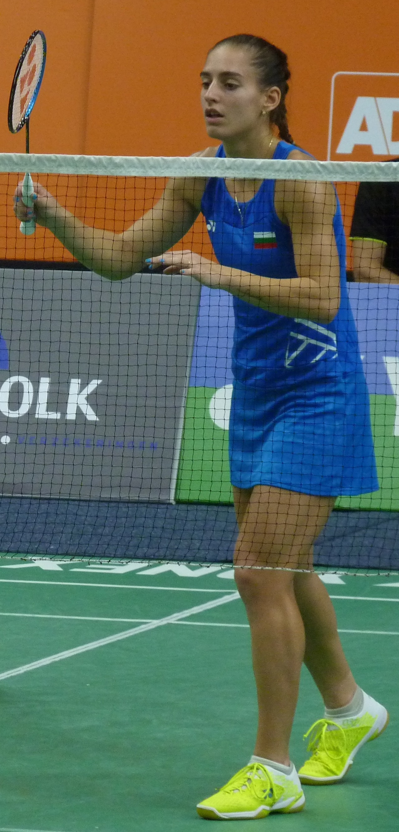 Gabriela & Stefani Stoeva (BUL)